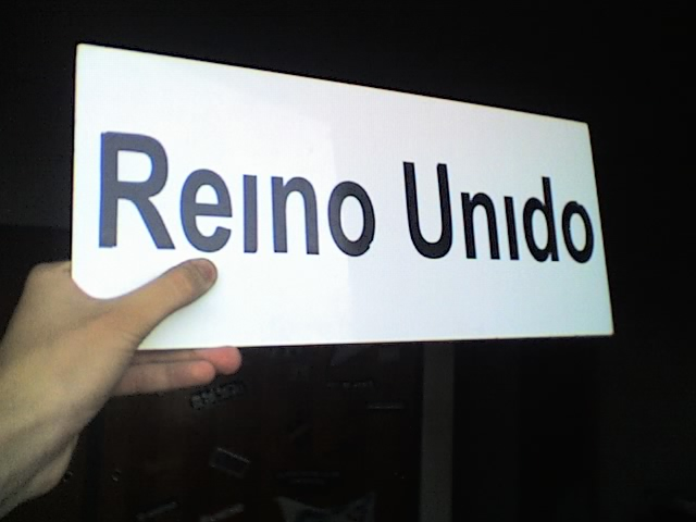 United Kingdom sign (in